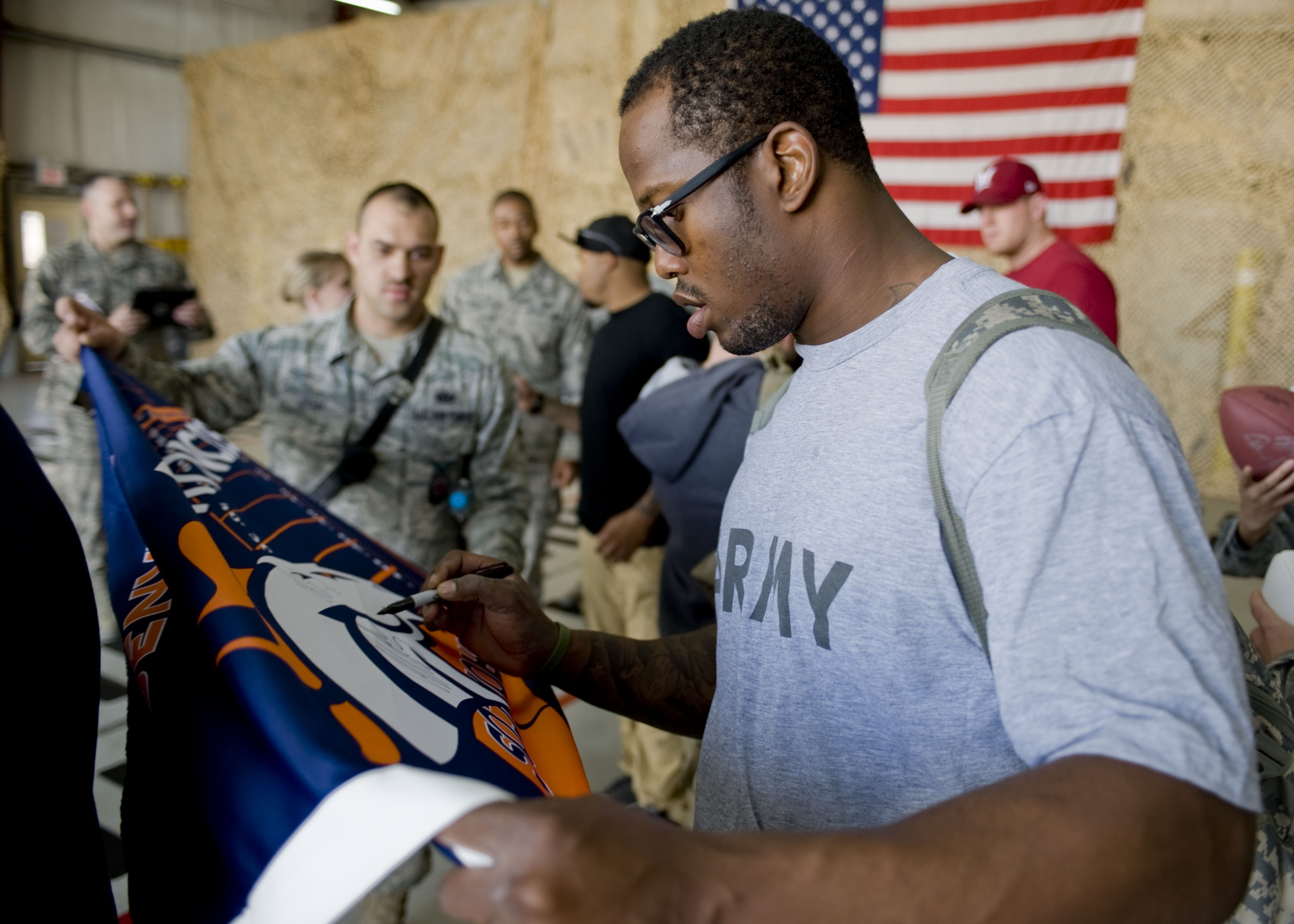 Von Miller, National Football League Denver Broncos linebacker, signs a Broncos flag for Staff Sgt. Christopher Ingle, 376th Expeditionary Civil Engineer Squadron rescue engine 11 crew chief, March 20, 2013, at Transit Center at Manas, Kyrgyzstan. "It's a great to see players from my favorite team," said Ingle. "I was so excited when I found out they were visiting TCM." Ingle is deployed from Peterson Air Force Base, Colo., and is a native of Clinton, Utah. (U.S. Air Force photo/Staff Sgt. Stephanie Rubi)